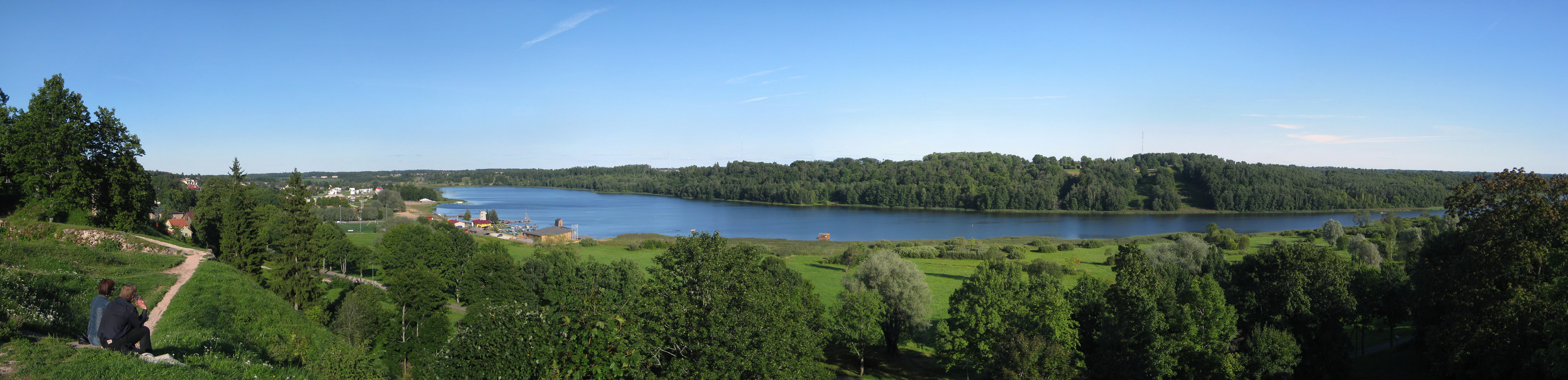 Panoramic view of Lake Viljandi from Viljandi castle ruins.